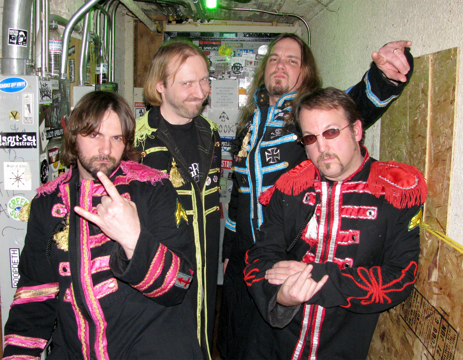 Beatallica group image jan 2009 (with GRG ///)